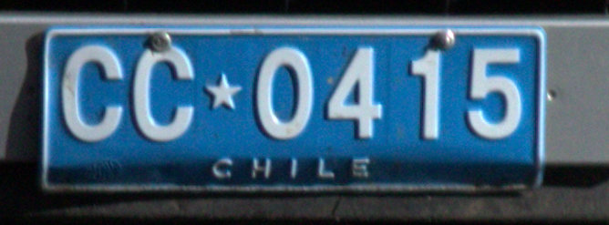 Chilean registration plate in format 2: consular corps